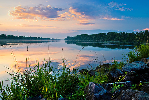 Upper Rhine River near Schwanau